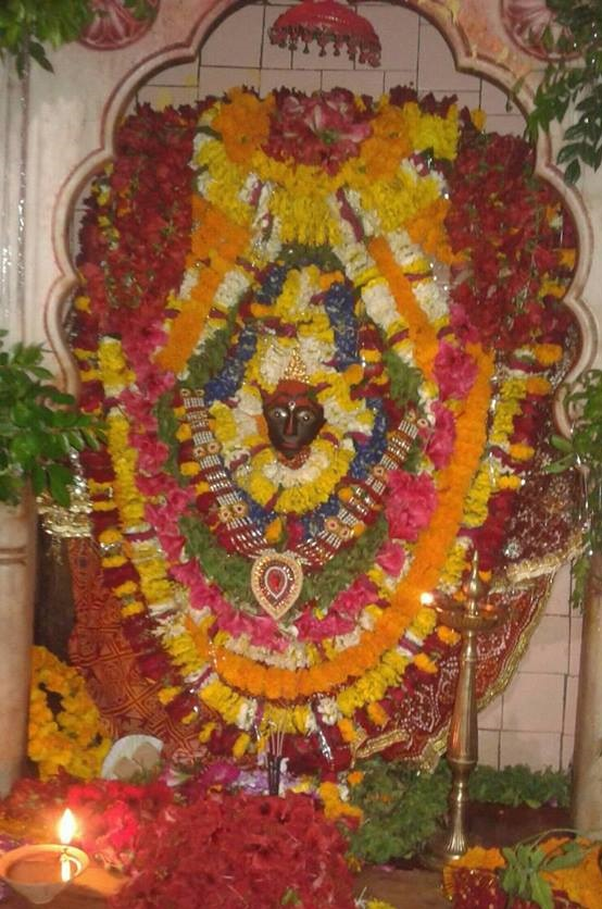 Sheetala Mata Mandir (Sheetala Chaukiya)